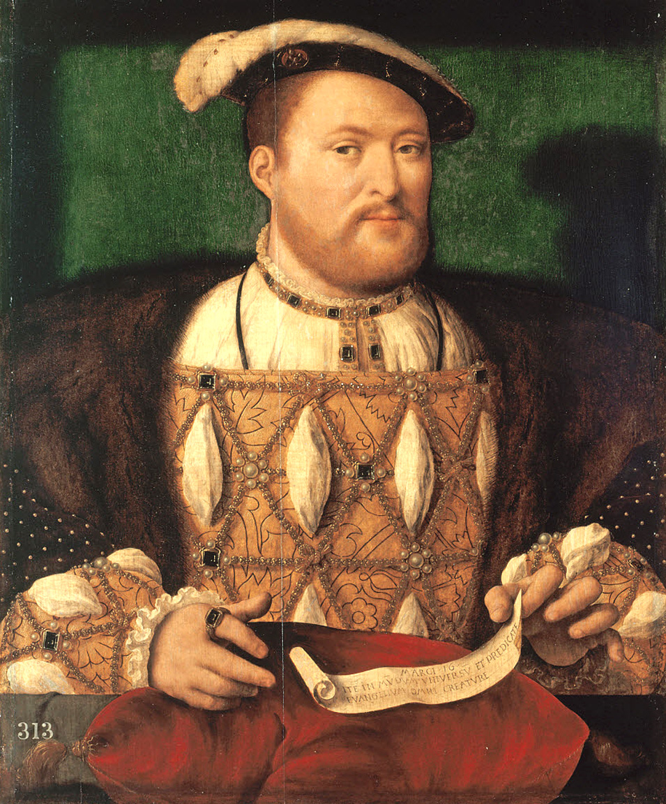 Henry VIII of England